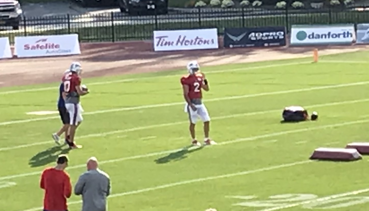 Buffalo Bills QB Nathan Peterman at training camp in 2018.